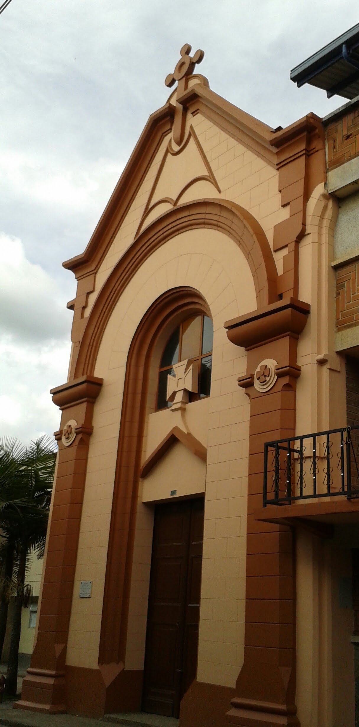 Capilla De La Sagrada Familia, Santa Rosa de Osos